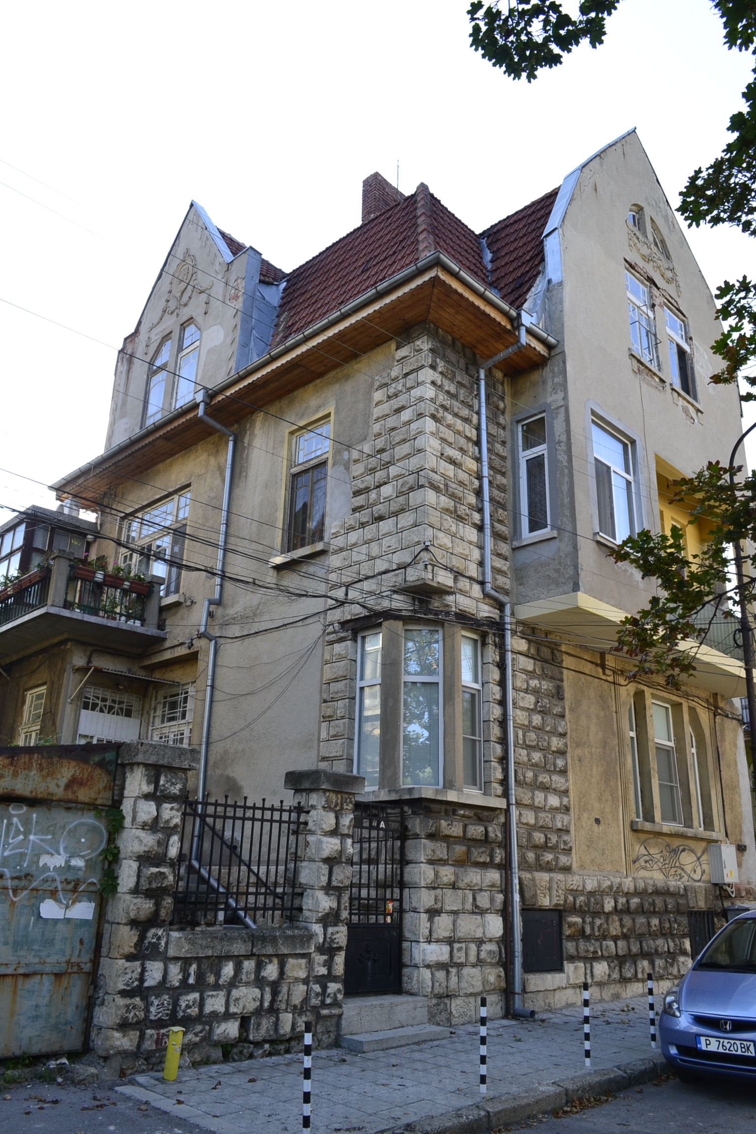 The house of Dr. Stoil Stanev as it looks today